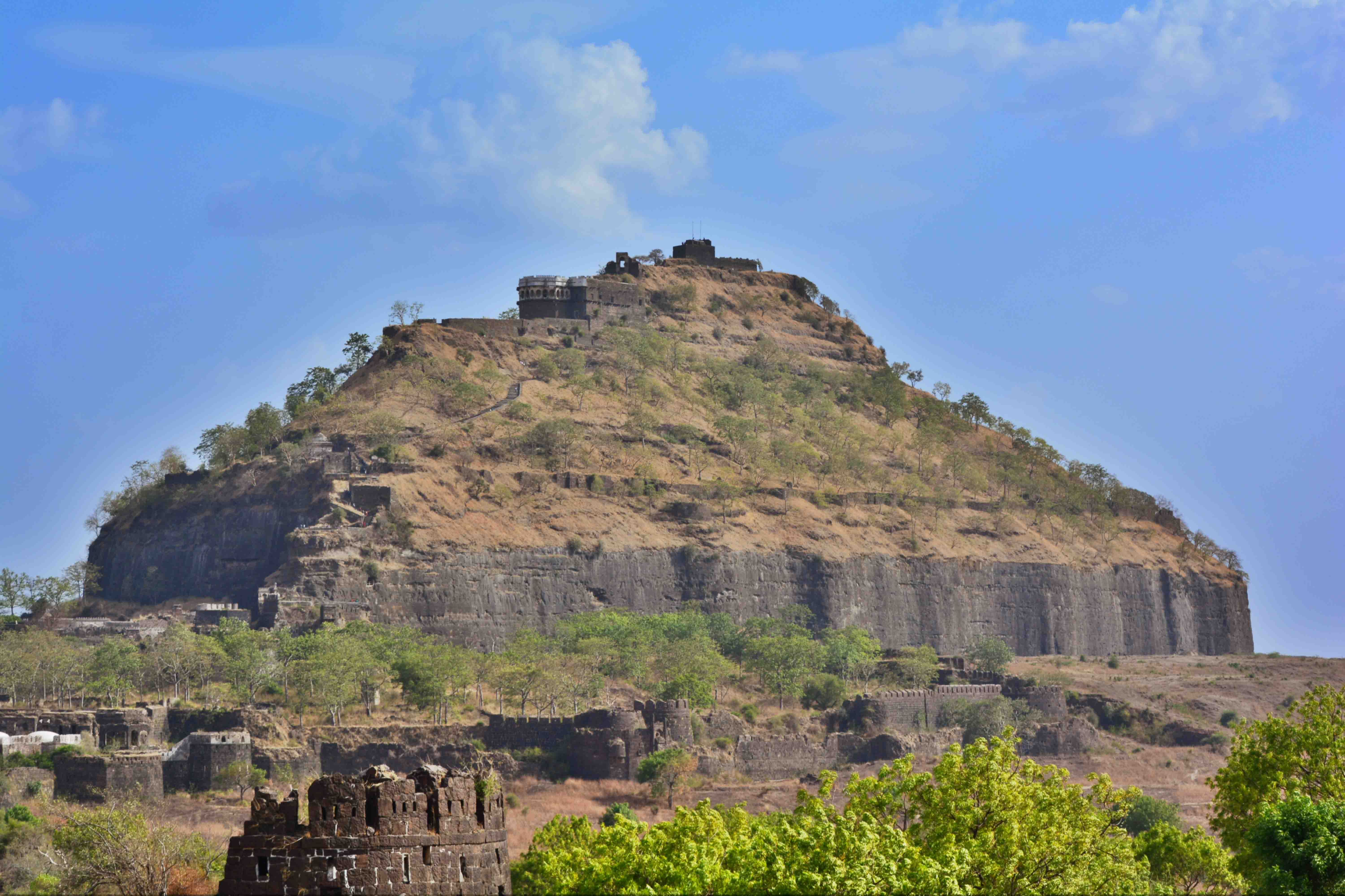 Daulatabad Fort & Monument therein (i.e. Chand Minar)